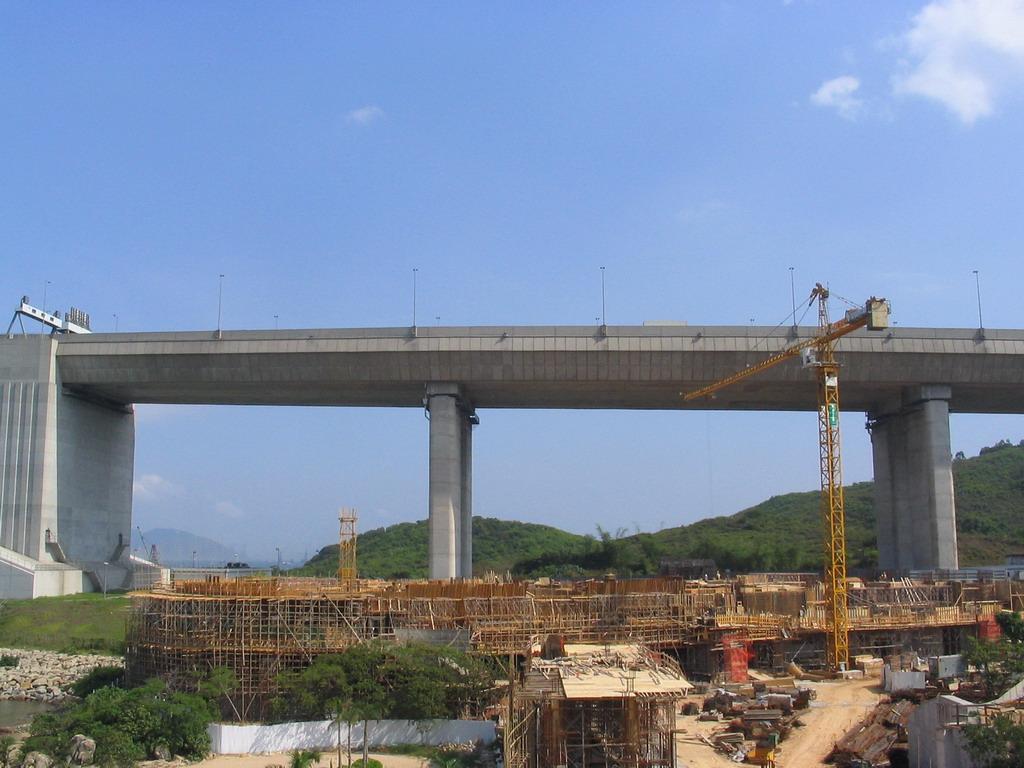 Ma Wan Viaduct & Ma Wan Park under constrction